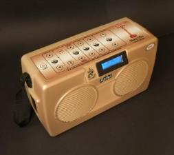 Miraj Plus, Digital tanpura 4/5/6 string with embedded sound of acoustic tanpura using advanced sampler technology